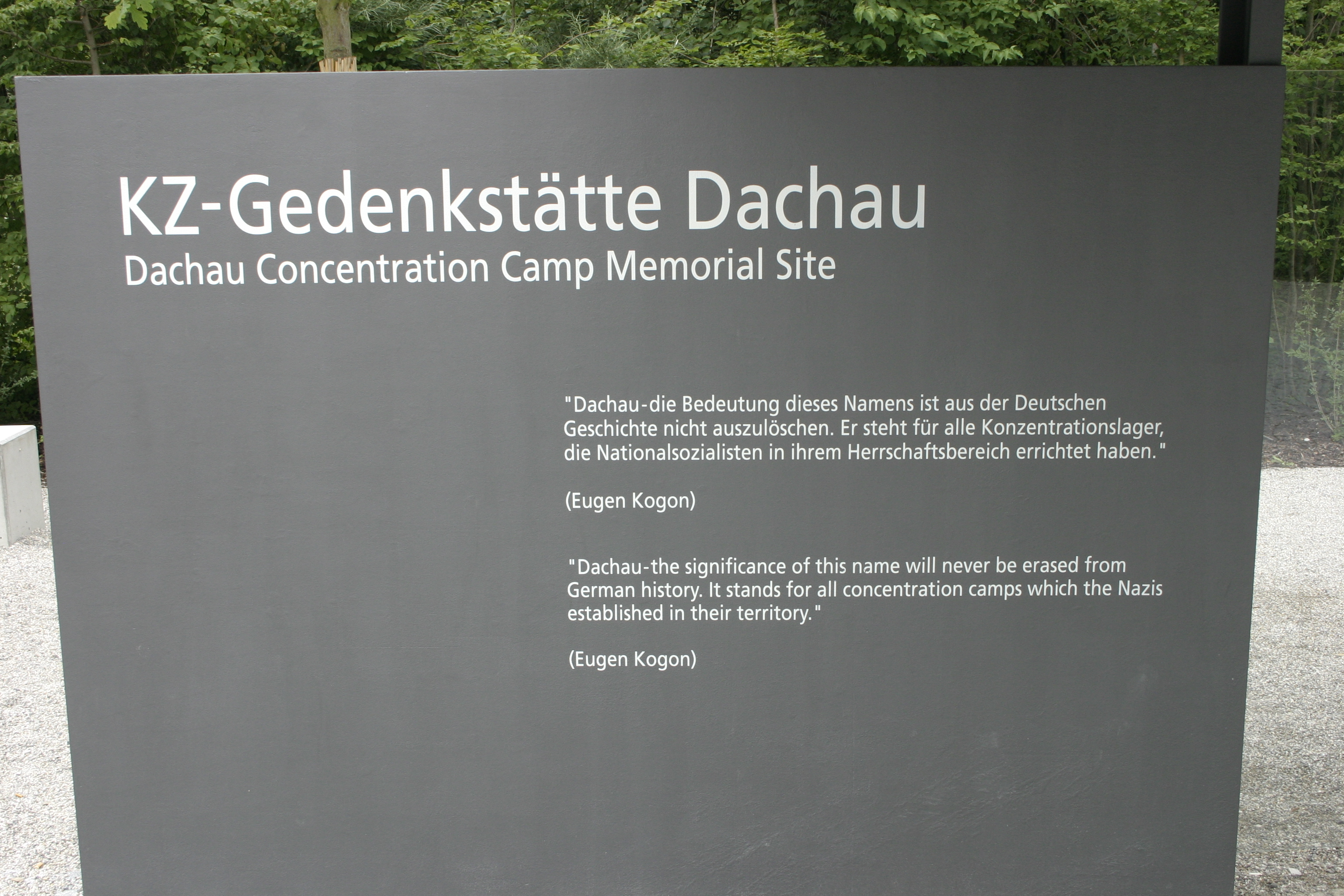 Dachau - Sign on the gravel road leading to the entrance